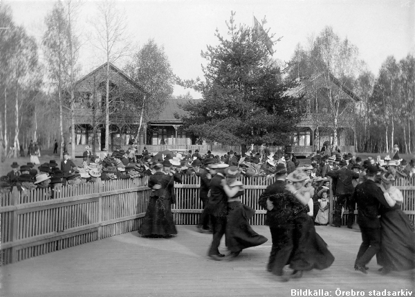 The restaurant "Strömsnäs" in Örebro, Sweden